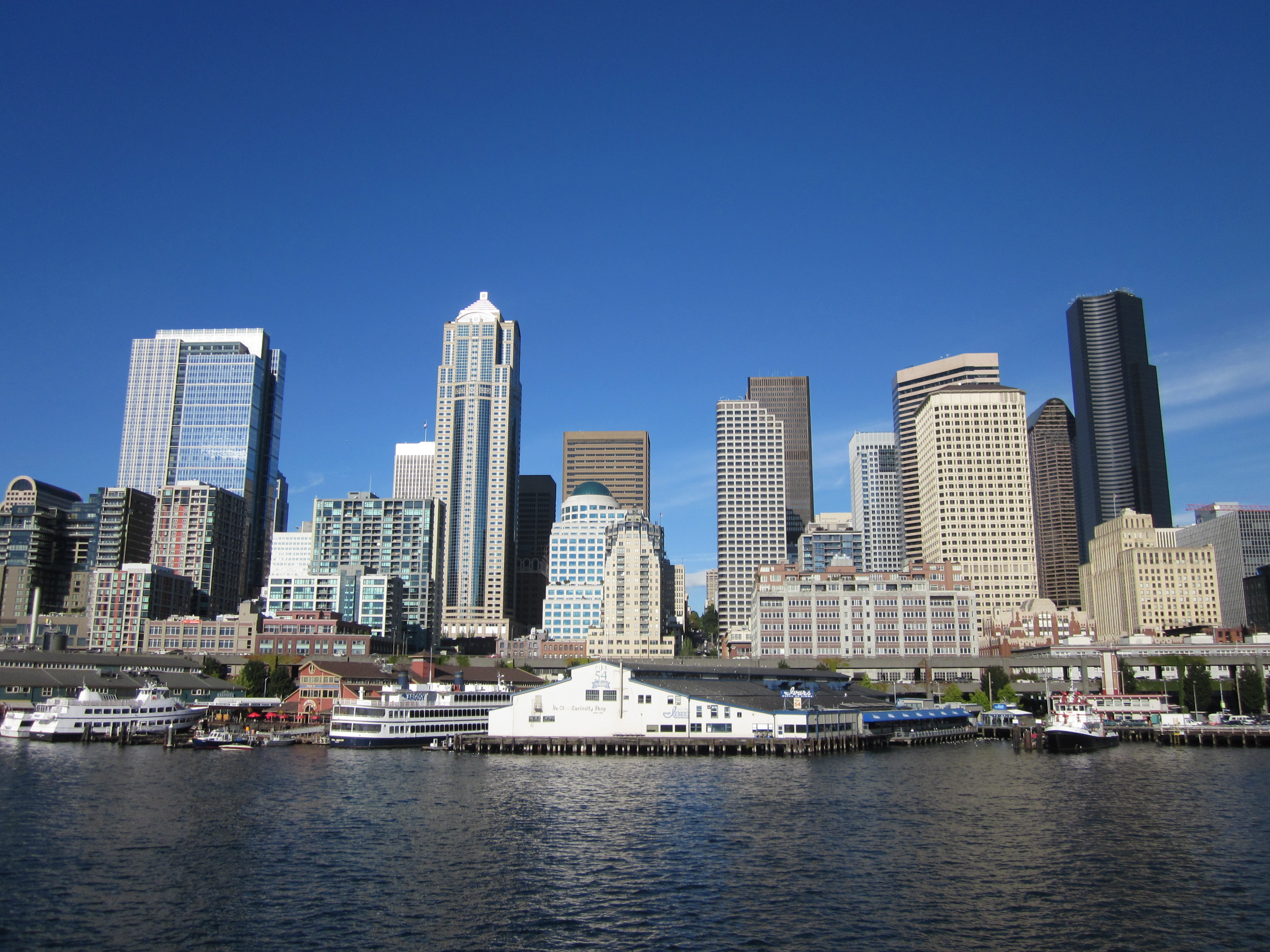 Downtown Seattle from the Central Waterfront